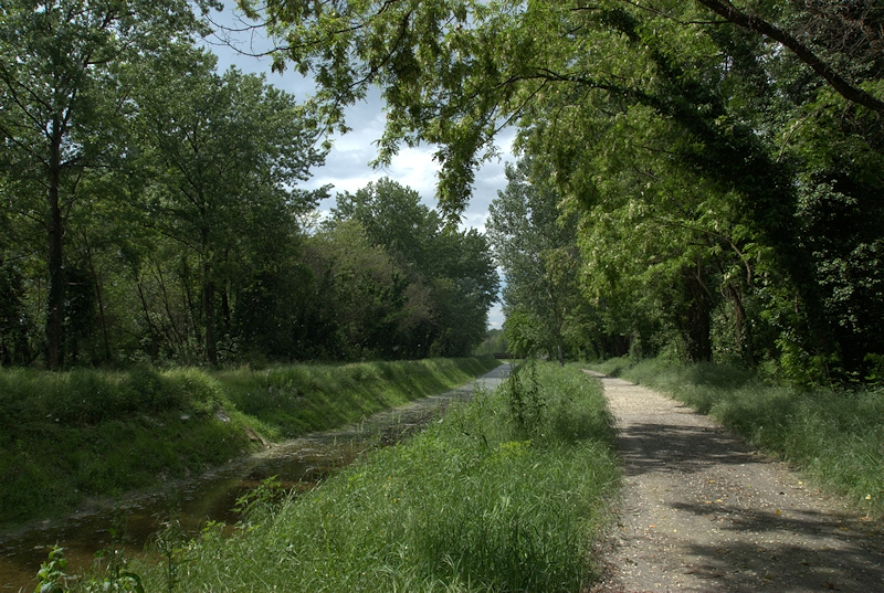 Bikeway "dei Navigli"